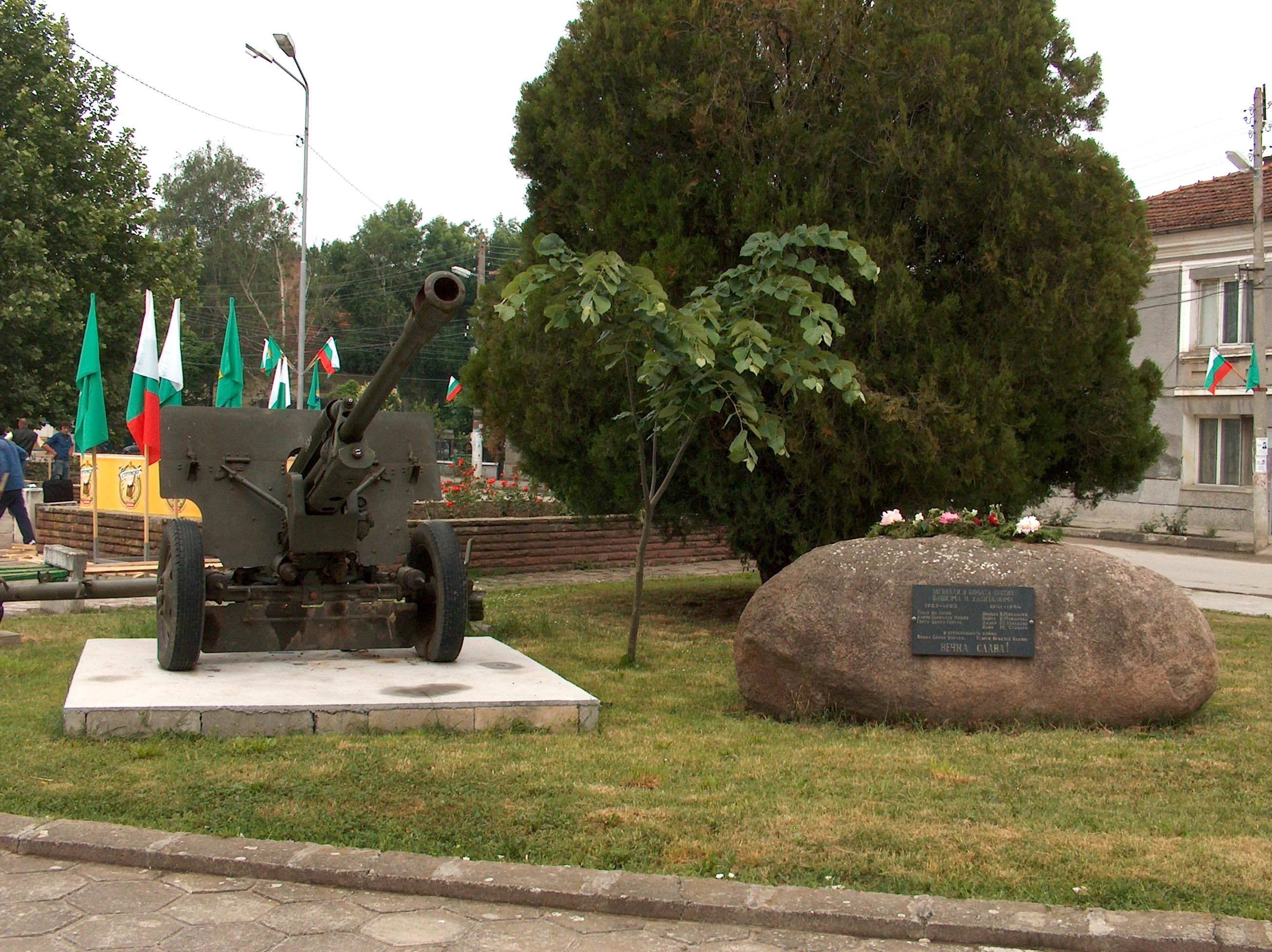 Monument to the fallen in the fight against fascism and capitalism in Skravena, Bulgaria.